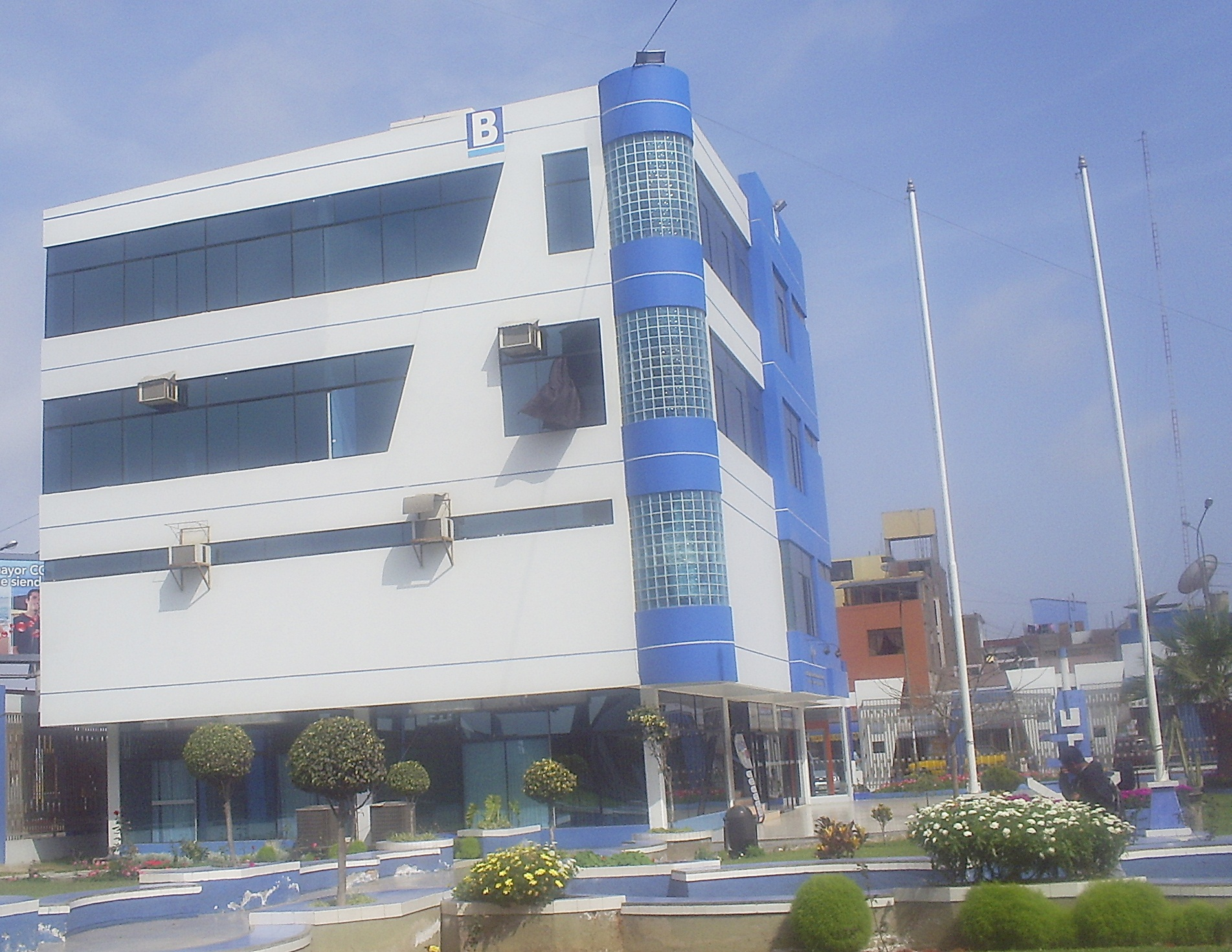 Oficina de Admisión de la sede principal de la Universidad César Vallejo en el distrito de Víctor Larco de la ciudad de Trujillo (Avenida Larco cuadra 17 - distrito Víctor Larco frente al canal UCV Satelital)